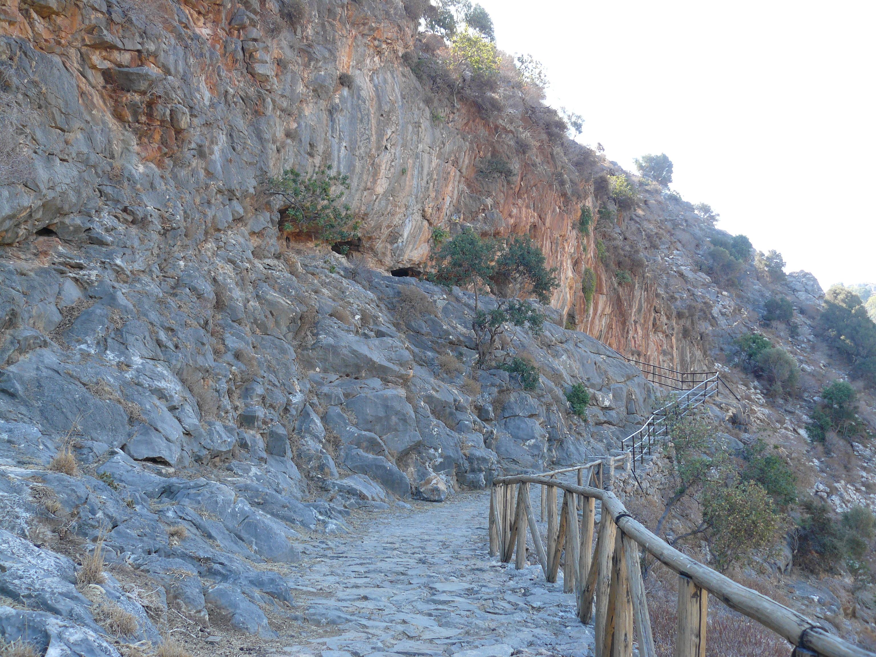 View of the entrance of the cave of Milatos